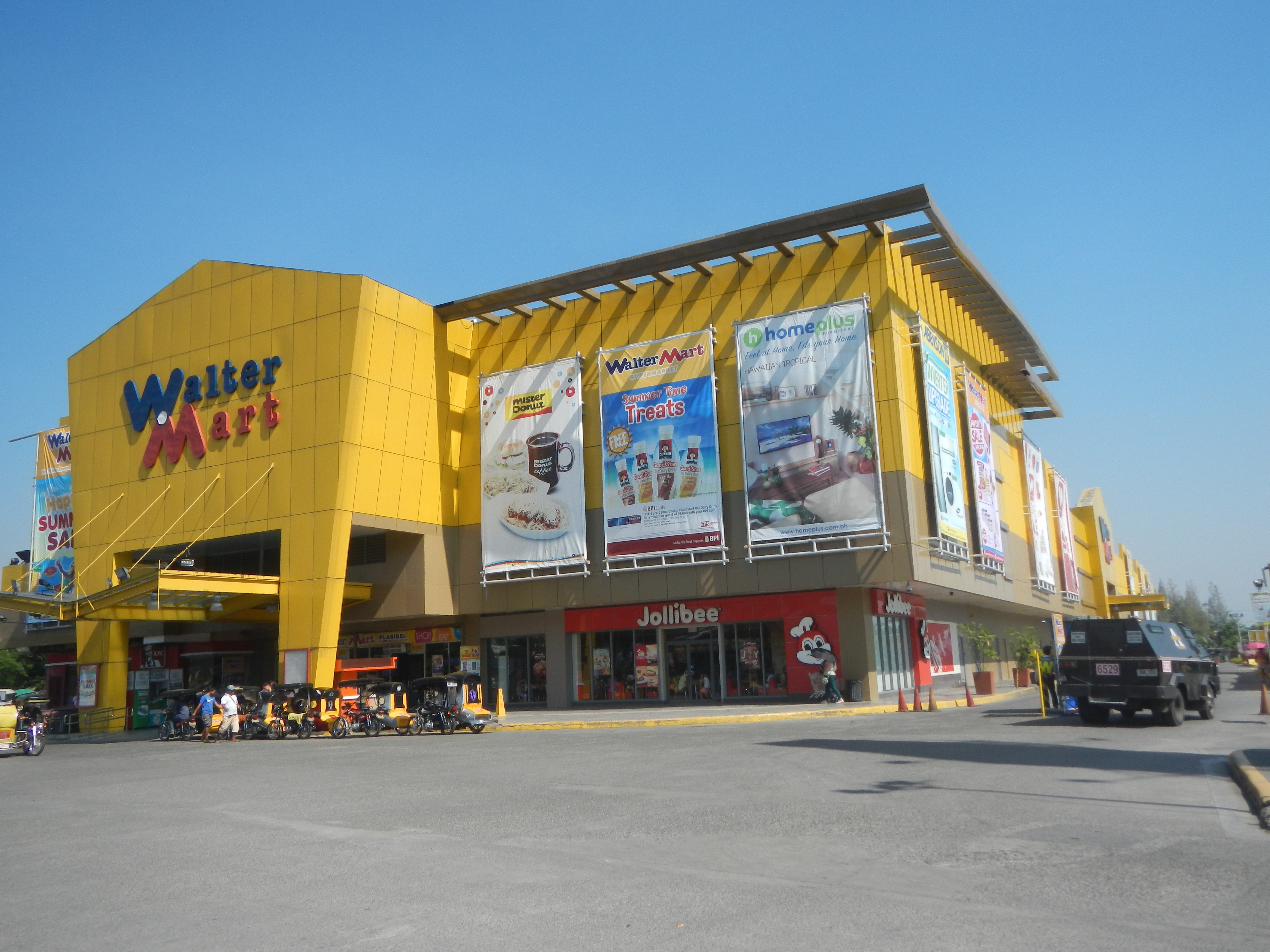 Walter Mart Plaridel